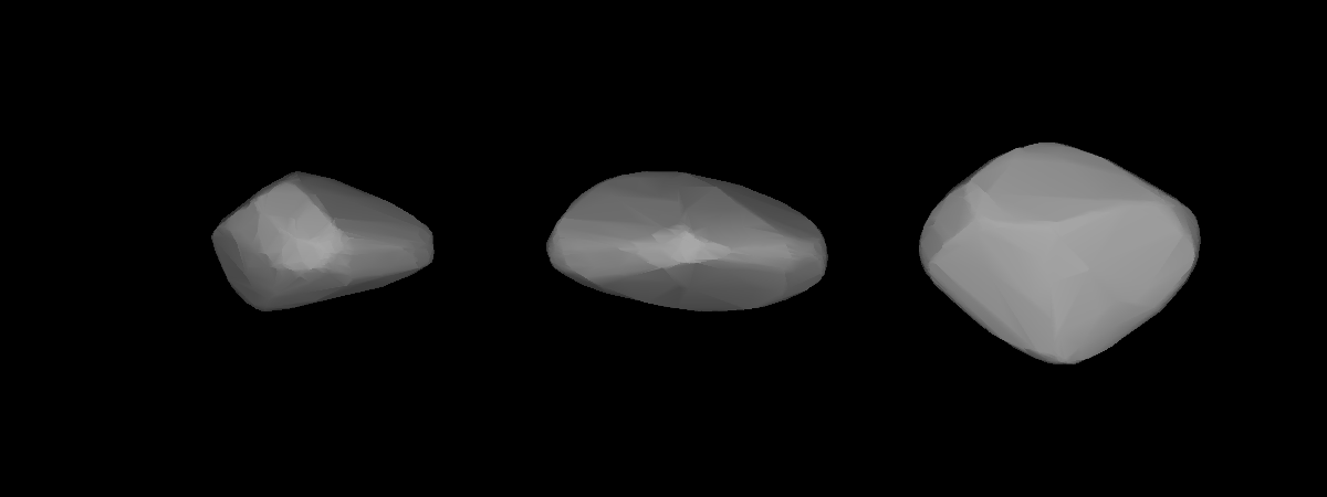 A three-dimensional model of 272 Antonia that was computed using light curve inversion techniques.